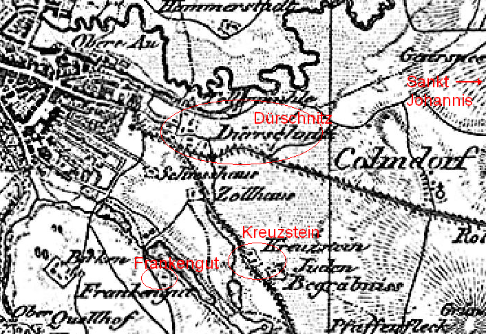 Bayreuth Dürschnitz map before 1864